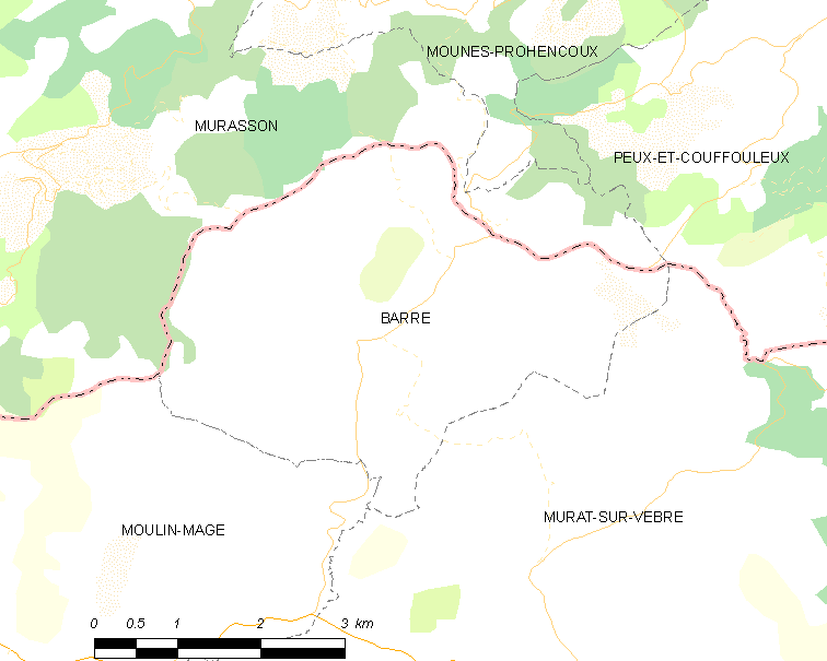 Map commune FR insee code 81023.png - Barre (Tarn)